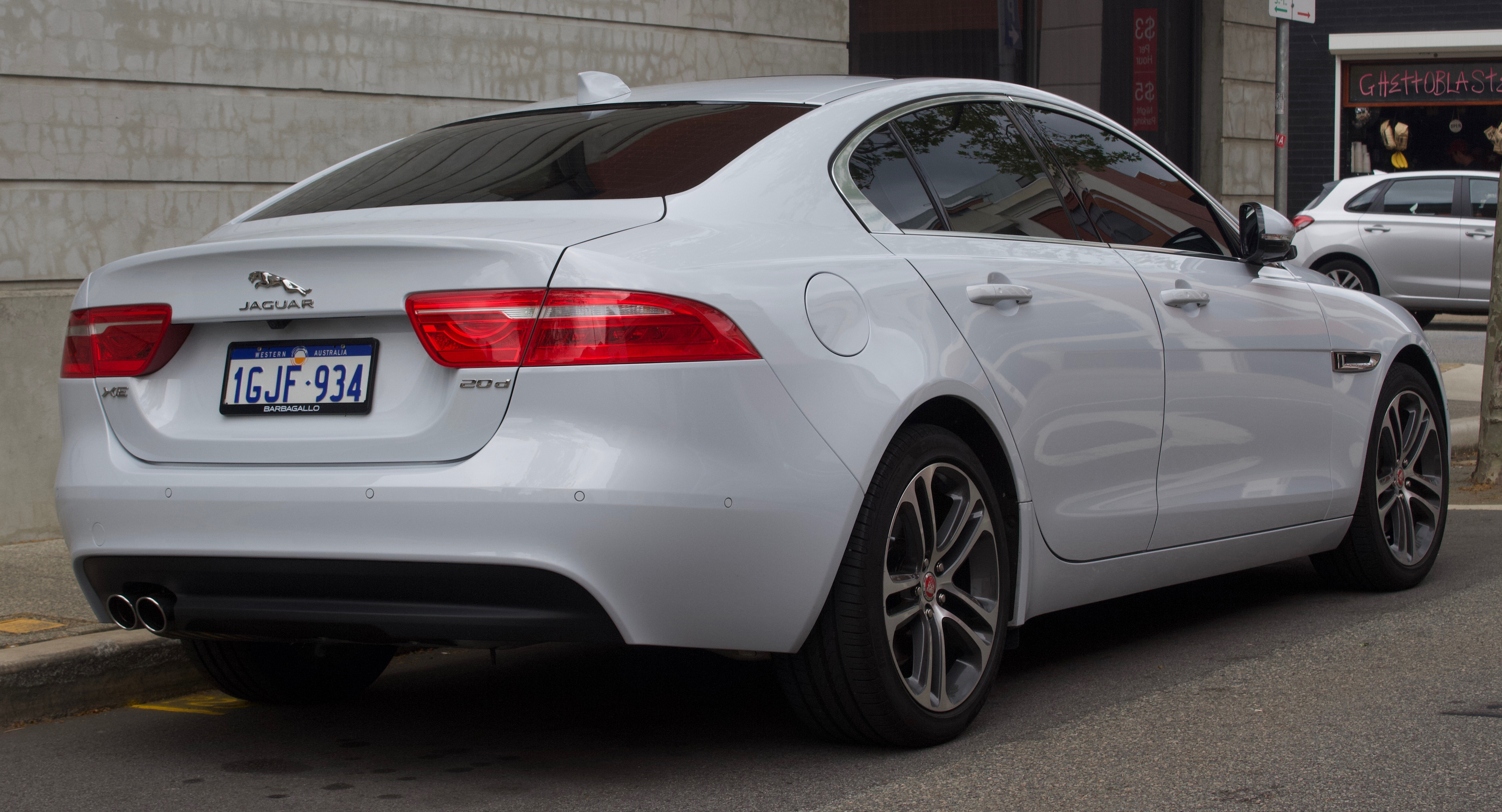 2017 Jaguar XE (X760 MY17) 20d Prestige sedan. Photographed in Fremantle, Western Australia, Australia.